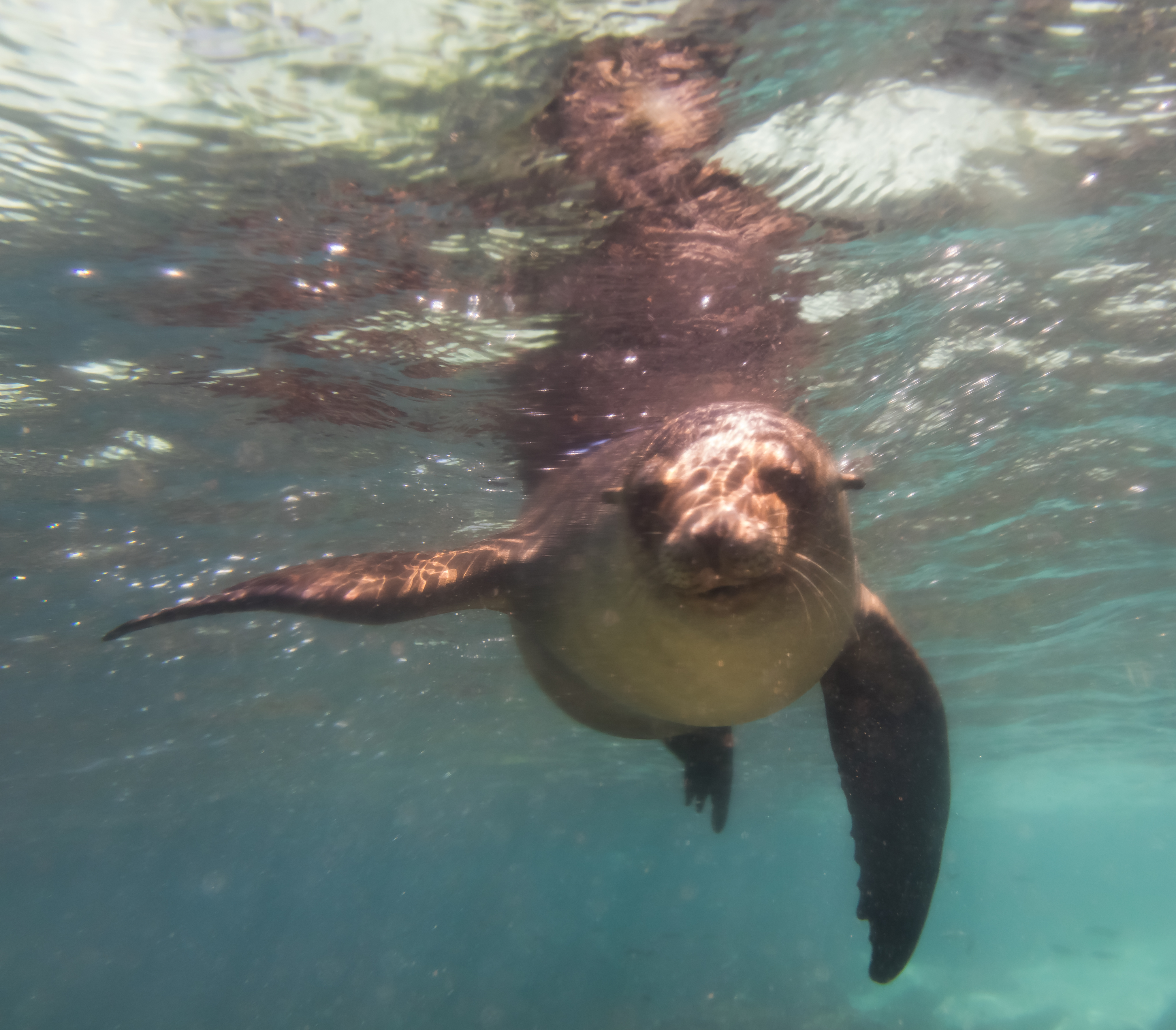 Sea lion (Zalophus californianus wollebaeki), San Cristobal island, Galapagos islands, Ecuador